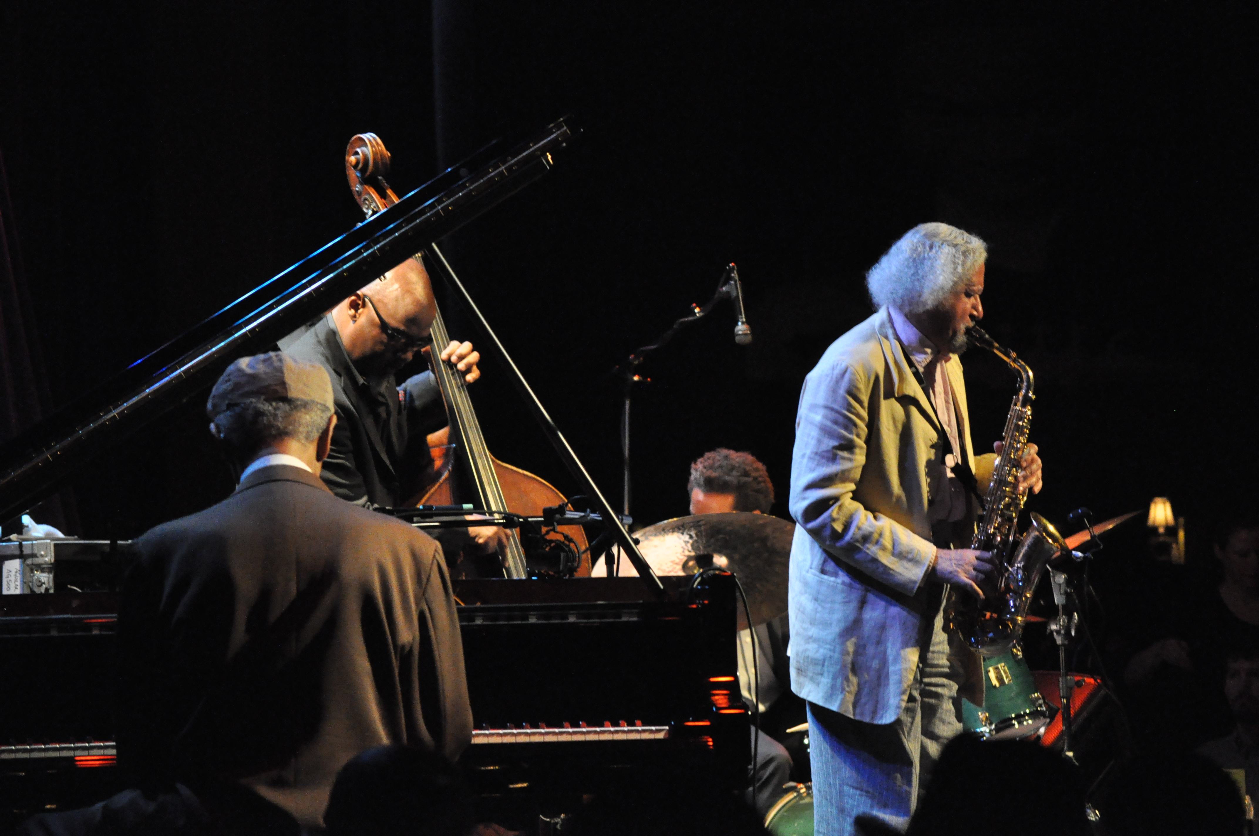 Saxophonist Gary Bartz playing with McCoy Tyner (seen from back in this photo) at Jazz Alley, Seattle, Washington, USA. Also visible are bassist Gerald Cannon and drummer Francisco Mela.